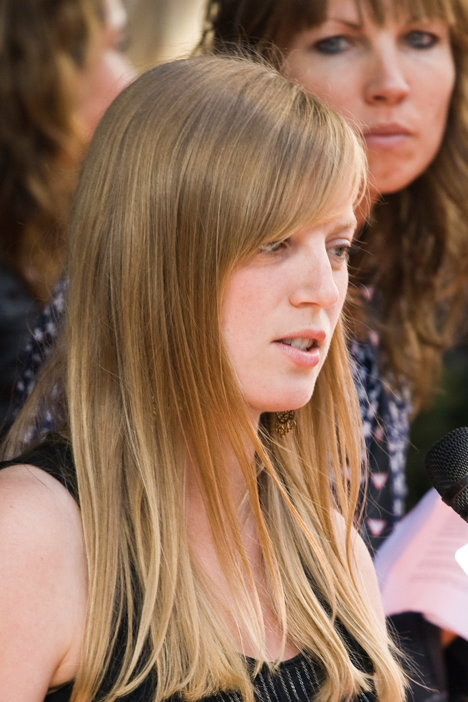 At the premiere of "Trigger", directed by Bruce McDonald, during the Toronto International Film Festival, 2010.